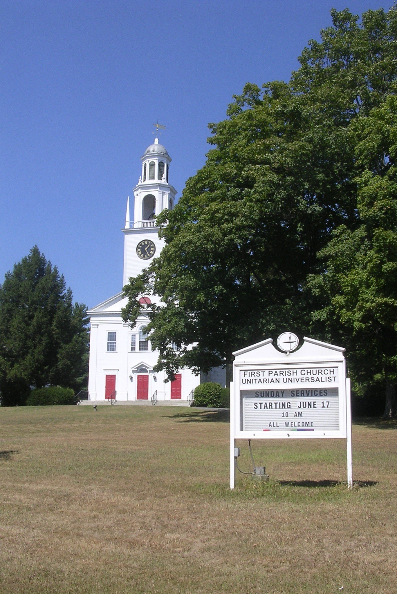 First Parish Church, Northborough Massachusetts